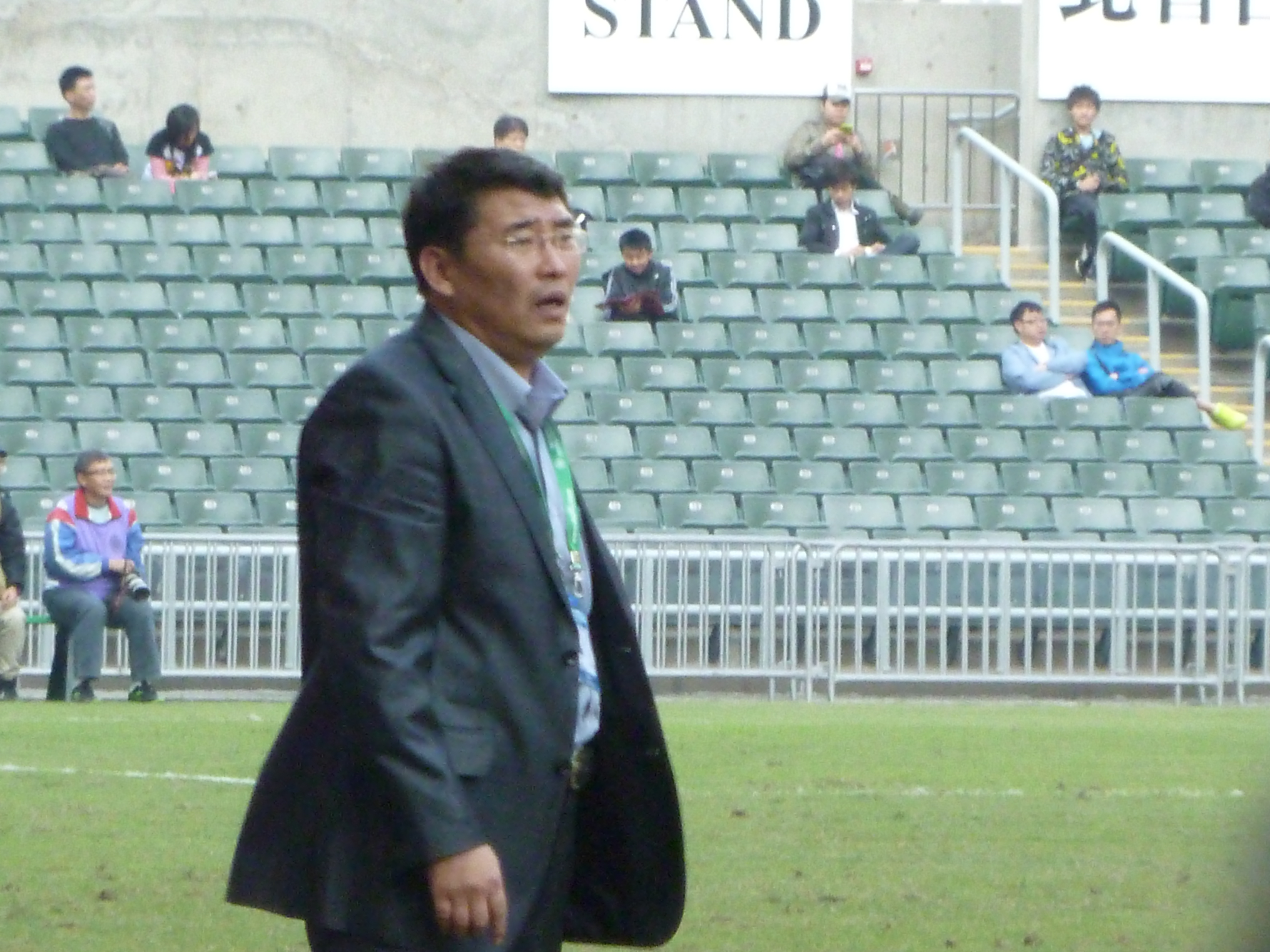 Yun Jong-Su (9 Dec 2012, EAFF East Asian Cup 2013 Preliminary Competition Round 2, Hong Kong vs DPR Korea, Hong Kong Stadium)中文（香港）: 尹正水 (9 Dec 2012, 2013東亞盃外圍賽第二圈, 香港 vs 朝鮮, 香港大球場)